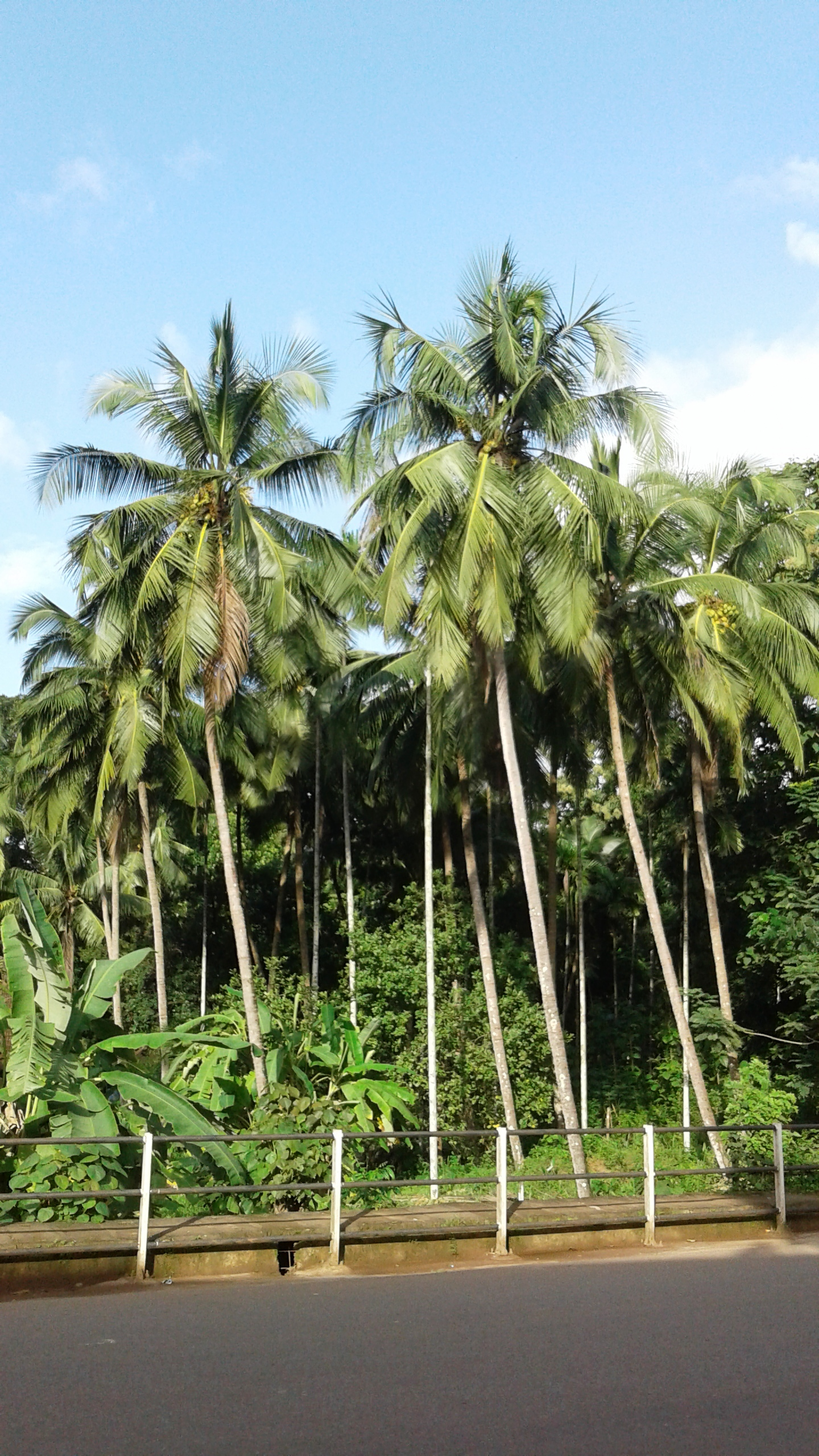 Opposite Head Post Office, Sulllia, Dakshina Kannada district, Karnataka state, India.